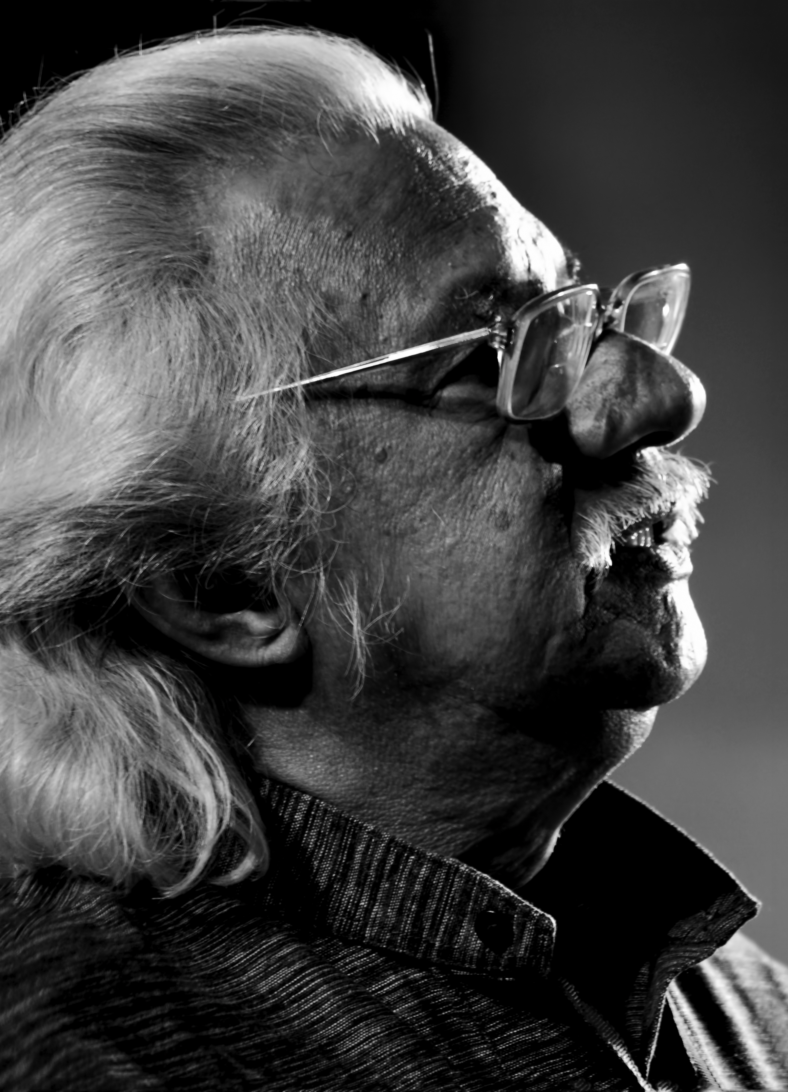 Adoor Gopalakrishnan